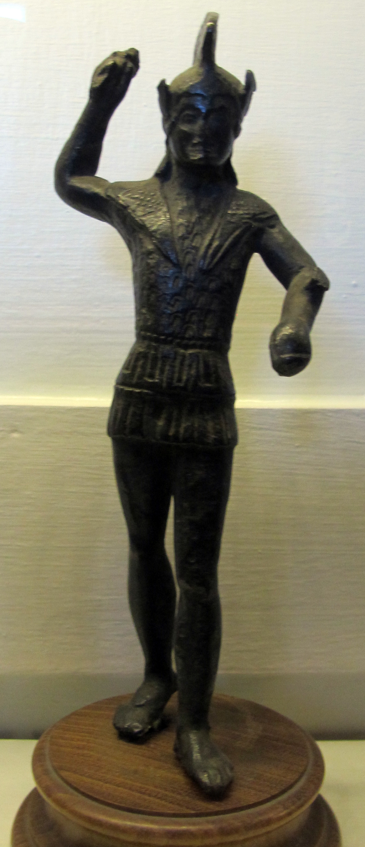 Etruscan bronze statuettes in the Museo archeologico nazionale (Florence)